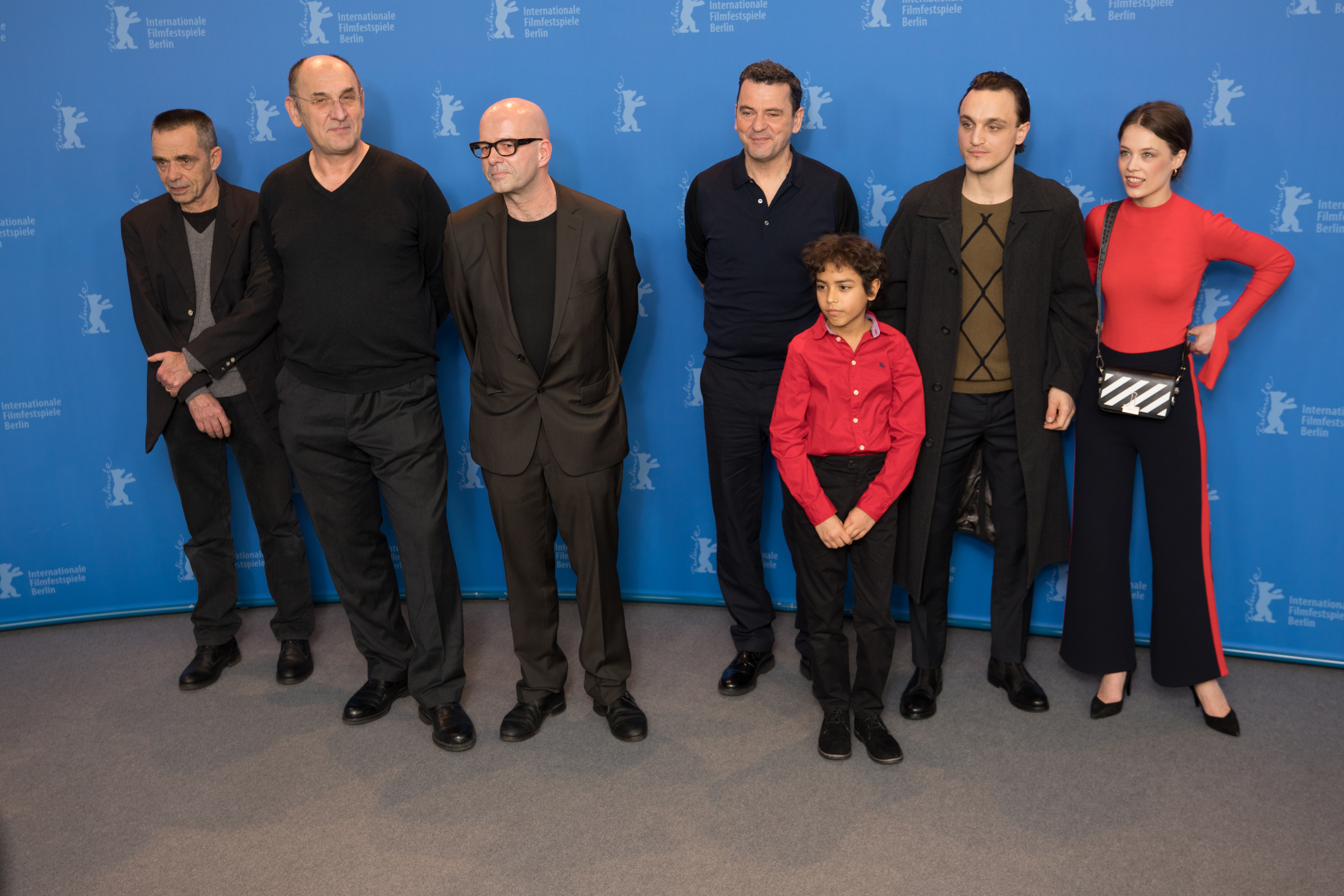 Photo call for the movie "Transit" at the Berlinale 2018